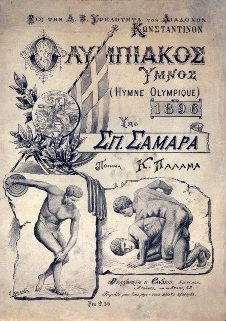 Initial Page of the Olympic Hymn by Spyros Samaras, 1896